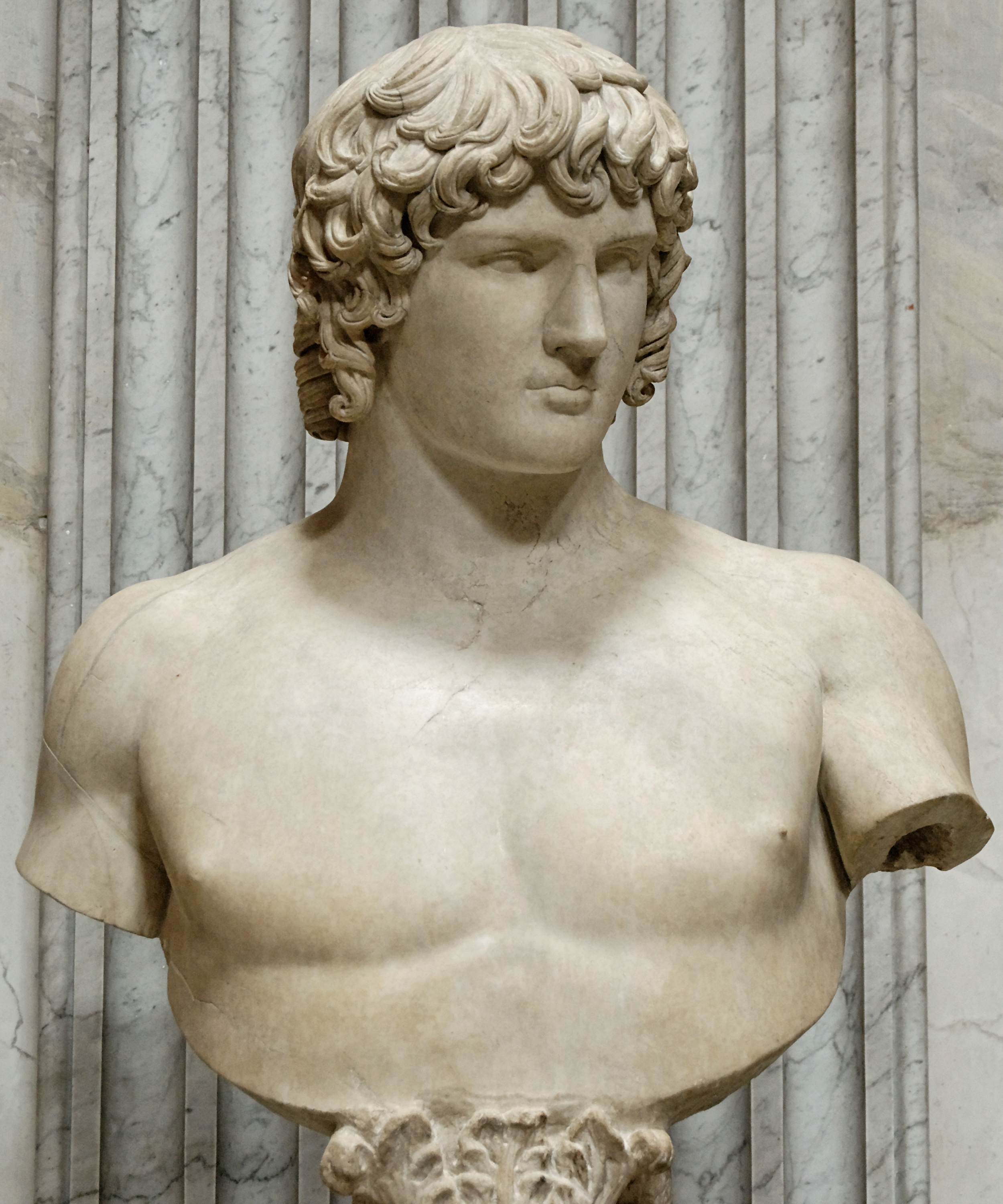 Colossal bust of Antinous from the Villa Adriana, near Tivoli.